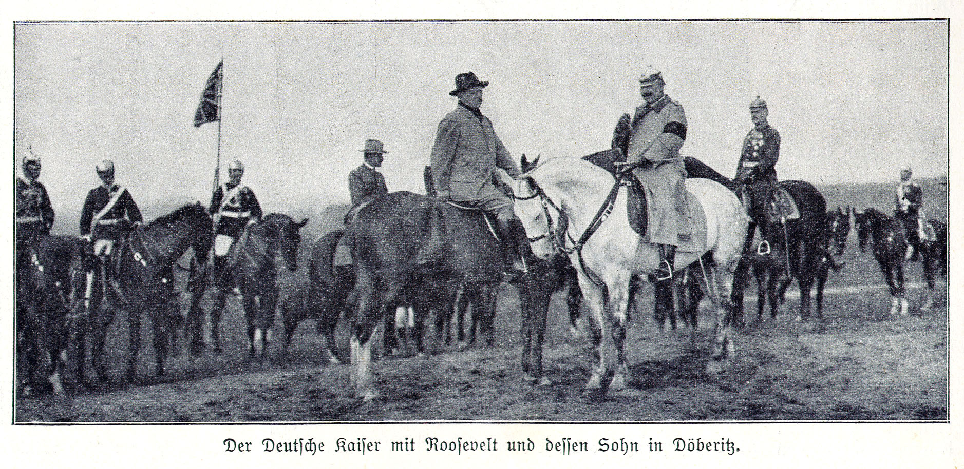 This photo, by an unknown photographer, appeared in a 1910 issue of the Catholic German magazine "Deutscher Hausschatz". It shows a friendly meeting in a military context of Theodore Roosevelt (center) with his son Kermit (left) and the German Emperor Kaiser Wilhelm II near the town of Döberitz. According to the newspaper, Roosevelt had visited European capitals like Rome and Vienna before recieving his honorary doctorate in Berlin on May 12, 1910.